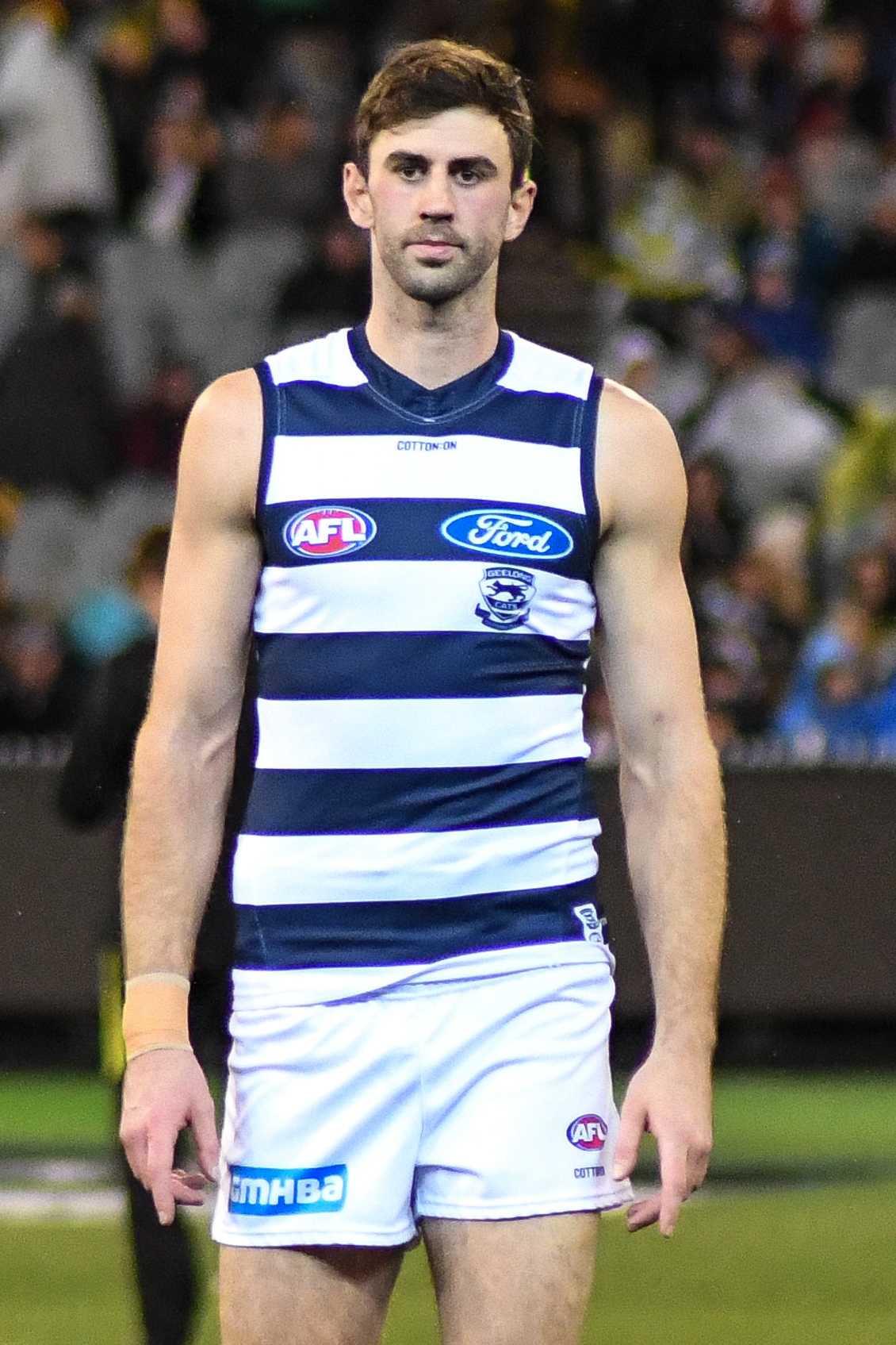 Ryan Abbott of Geelong during the 2018 AFL round 20 match between Richmond and Geelong at the Melbourne Cricket Ground on Friday, 3 August 2018 in Melbourne, Victoria.